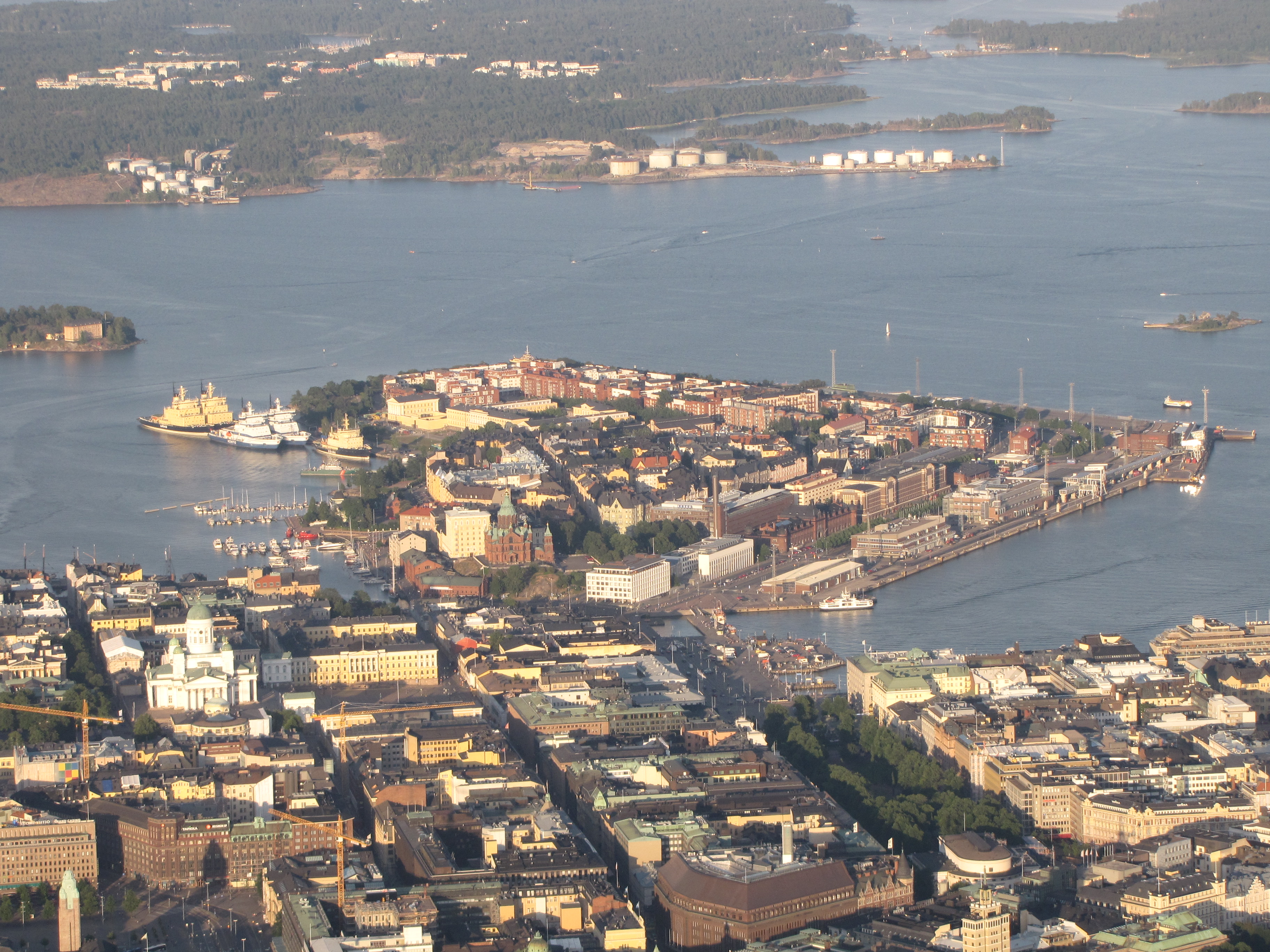 Katajanokka photographed from a hot air balloon.